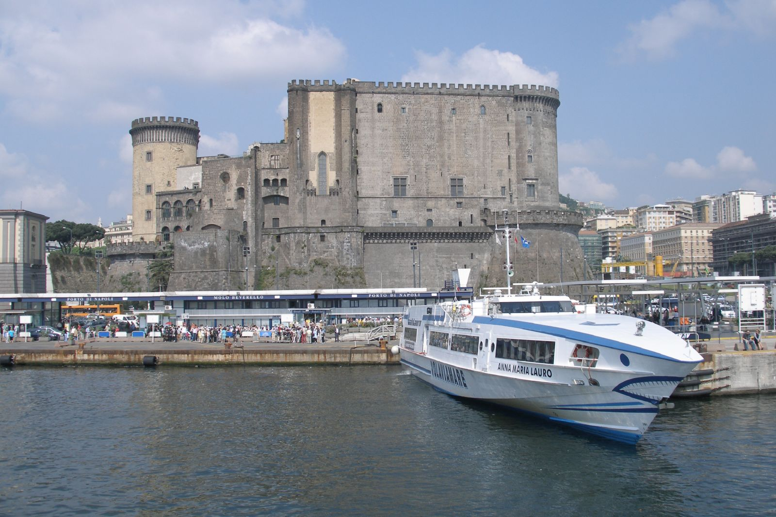 Castel Nuovo (Italian: New Castle), often called Maschio Angioino, is a castle in the city of Naples, southern Italy. It is the main symbol of the architecture of the city.